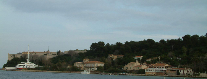 Photo of the Ile Sainte-Marguerite: view of the north of the island, including Sainte-Marguerite village and the Fort Royal. Author: Vjam. Category:Lérins Islands